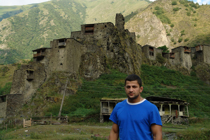 The Author: Paata Vardanashvili. Permission: Soso, dzalian mixaria rom atvaliereb da mogcons chemi potoebi, romlebic ginda gamoikene. tu didi zomis potoebi dagchirdeba shegidzlia momcero da gamogigzavni, aranairi problema araa. Pativiscemit Paata This note has been sent to the Wikimedia Committee